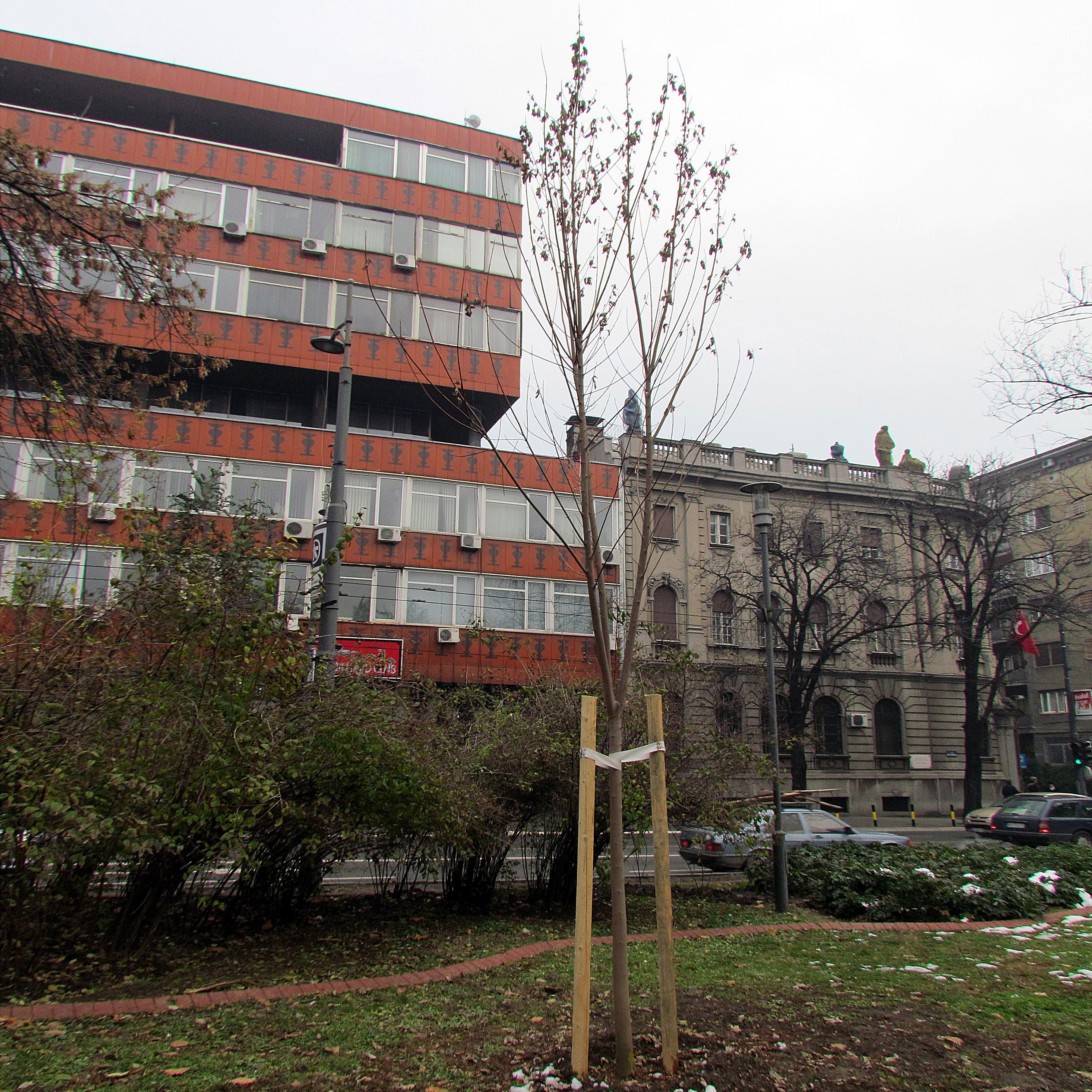 Acer saccharinum nursery stock in Pionirski park (Belgrade)